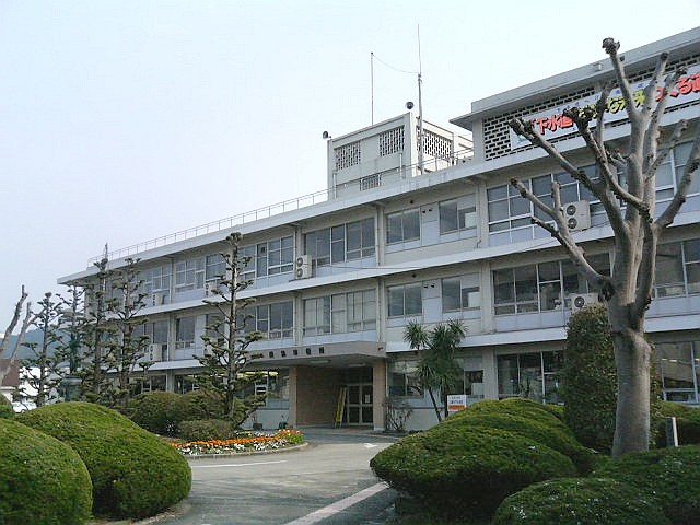 City office of Mine, Yamaguchi, Japan